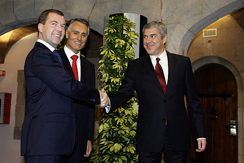 LISBON. With President of Portugal Aníbal Cavaco Silva and Prime Minister of Portugal José Sócrates.